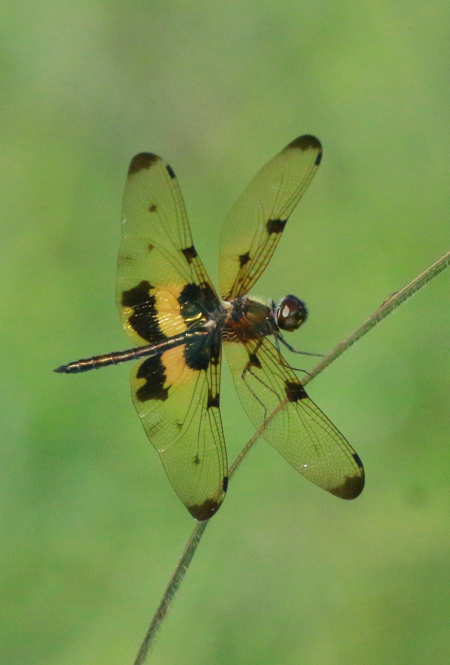 Rhyothemis variegata,Common Picture wing